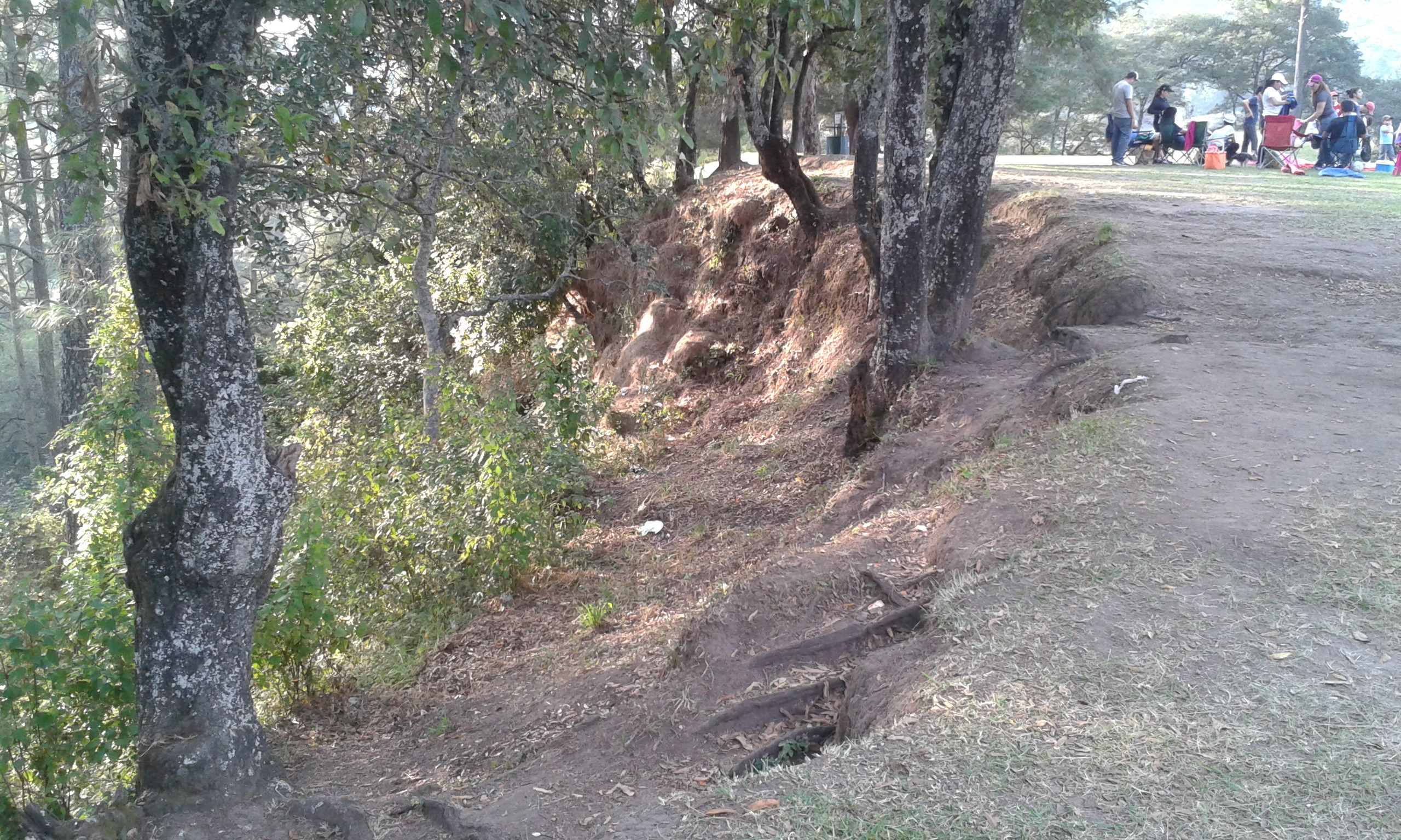 Zaculeu, Mam Maya ruins in Huehuetenango, Guatemala. Ravine on the southwest side of the site.